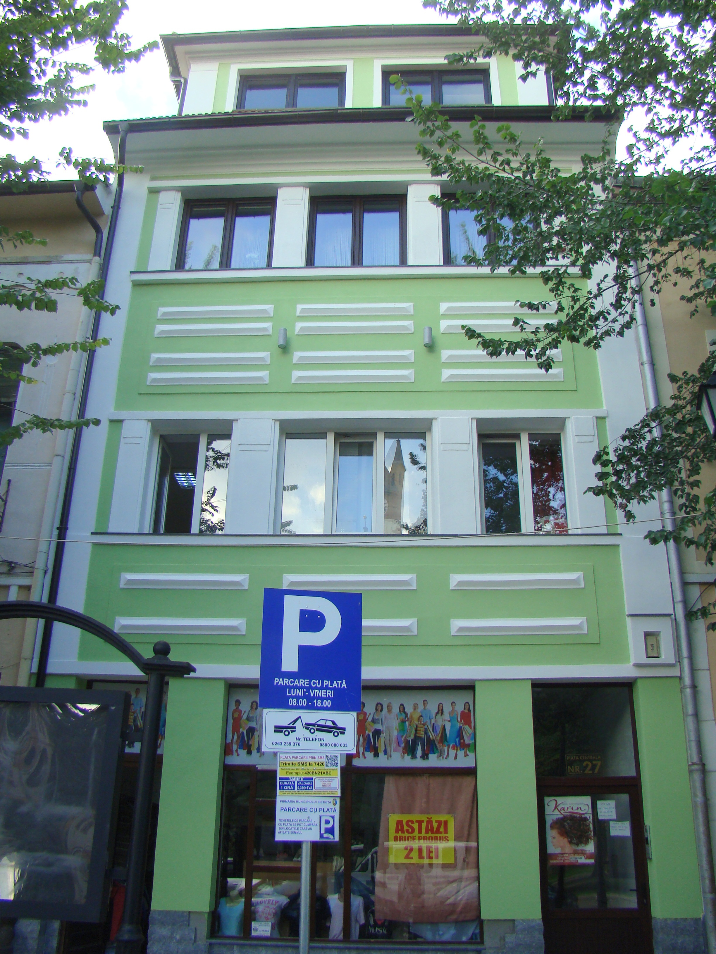 House, historic monument, in Bistrița, Piața Centrală 27